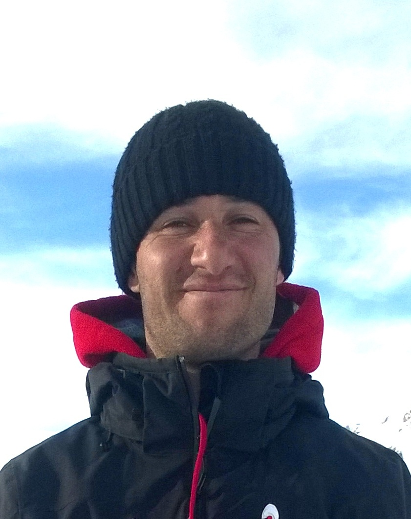 Photo of the athlete